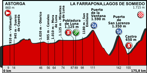 Profile of the 14th stage: Vuelta a España 2011